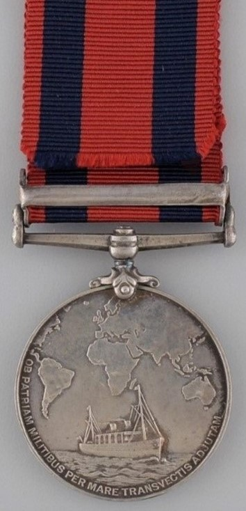 British campaign medal awarded to senior merchant navy officers during the Boer War or China Boxer Rebellion.